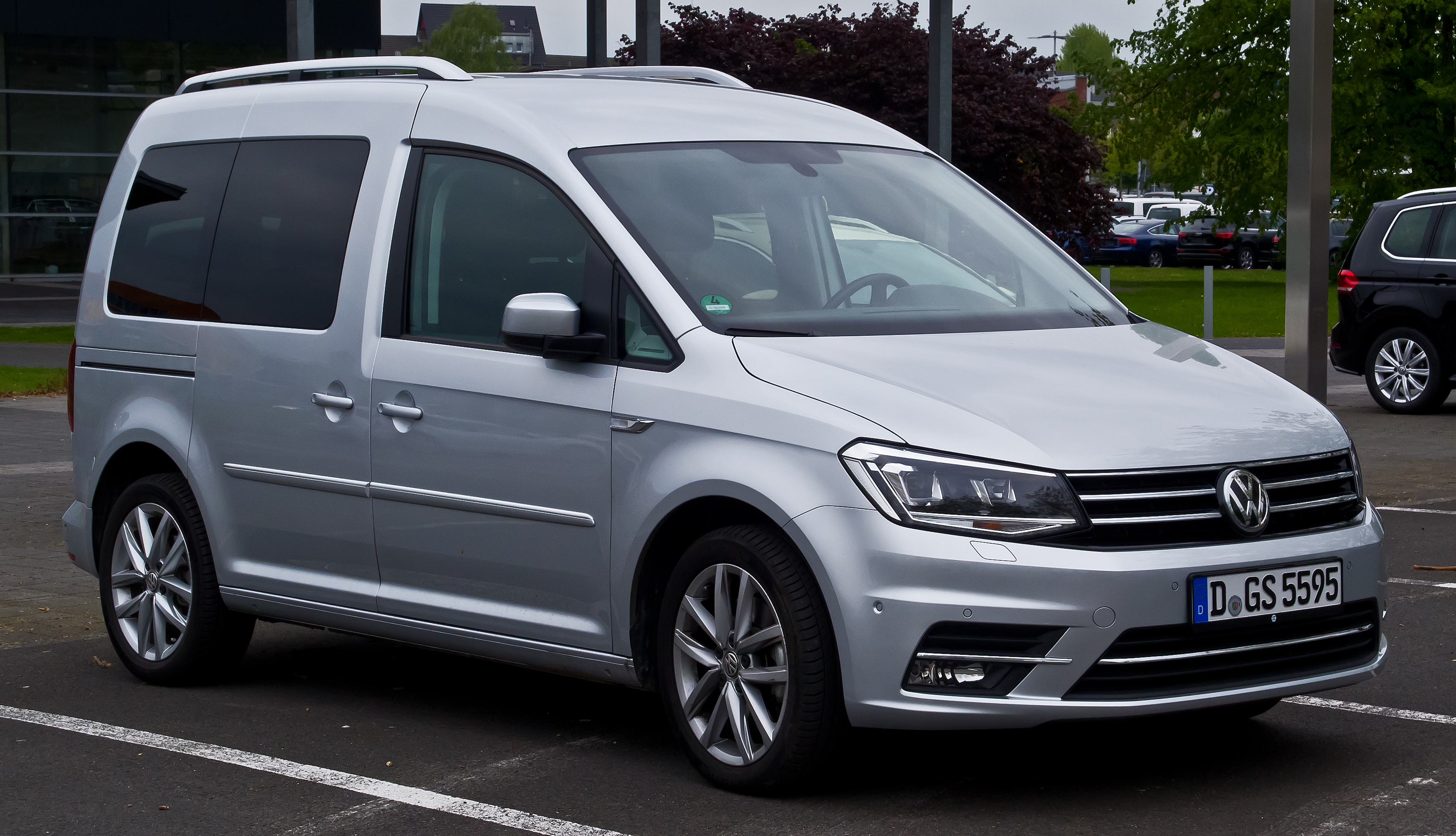 VW Caddy 2.0 TDI BlueMotion Technology Highline (2K, 2. Facelift)